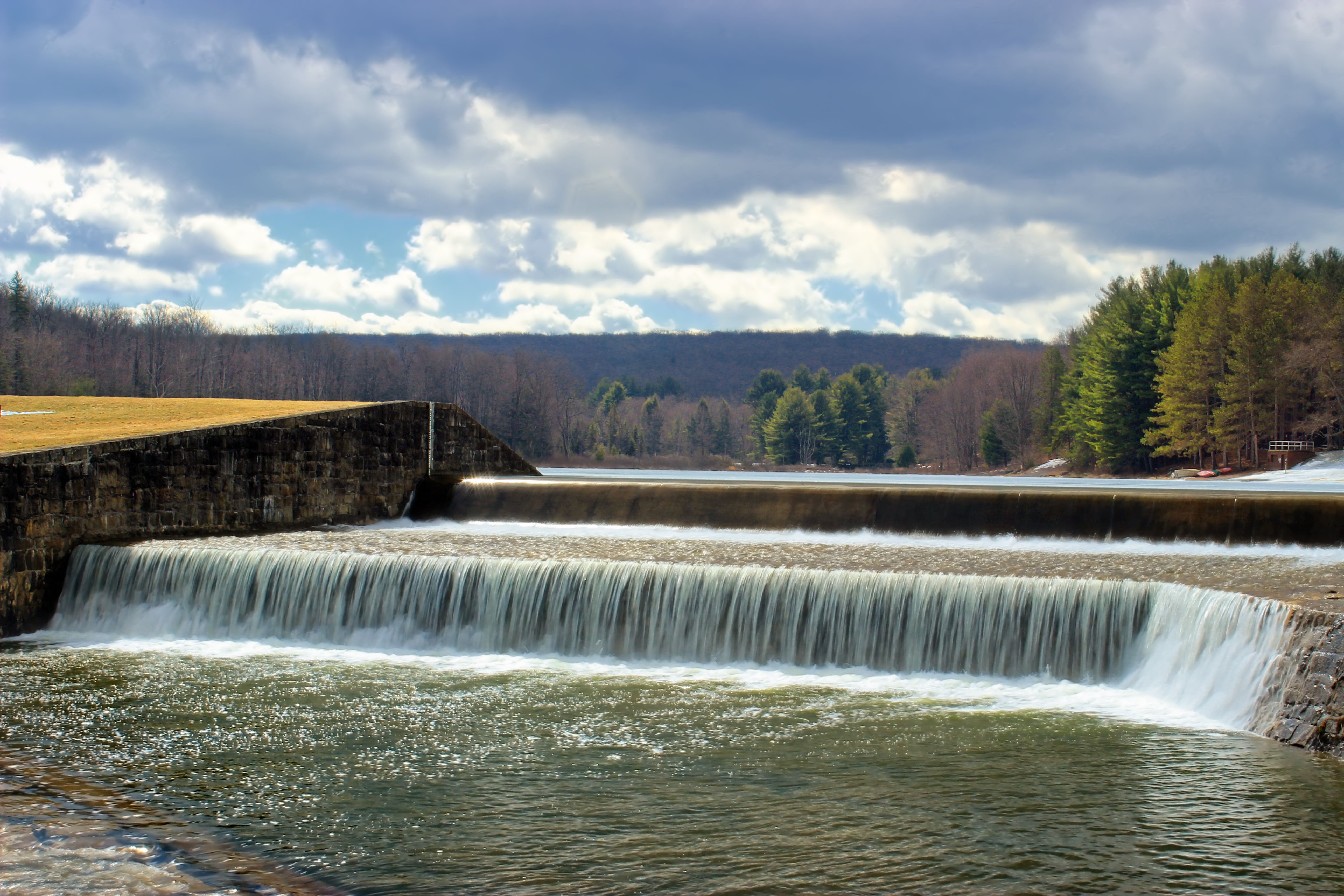 Parker Dam State Park, Clearfield County. The Civilian Conservation Corps (CCC) constructed the dam in the 1930s. A CCC interpretive center is nearby.